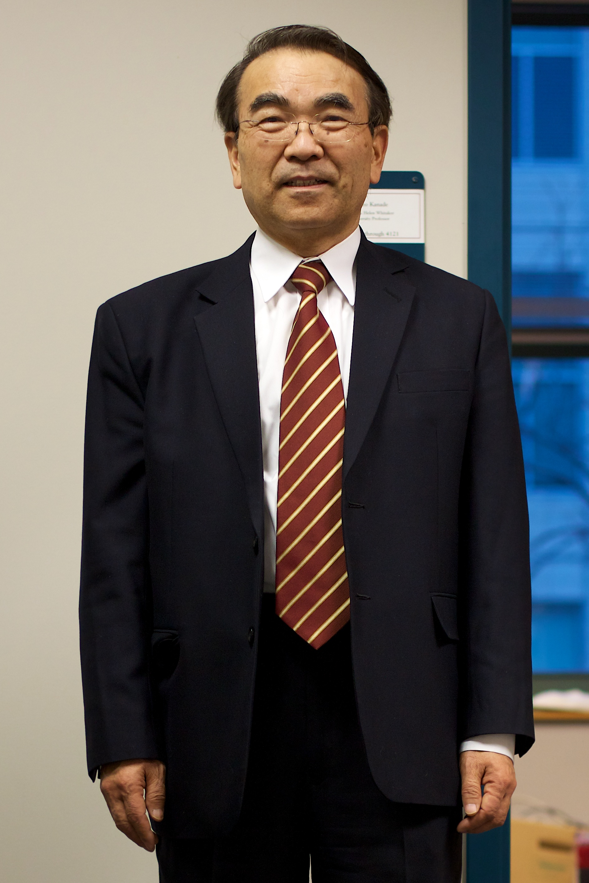 Takeo Kanade in front of his office at Carnegie Mellon University